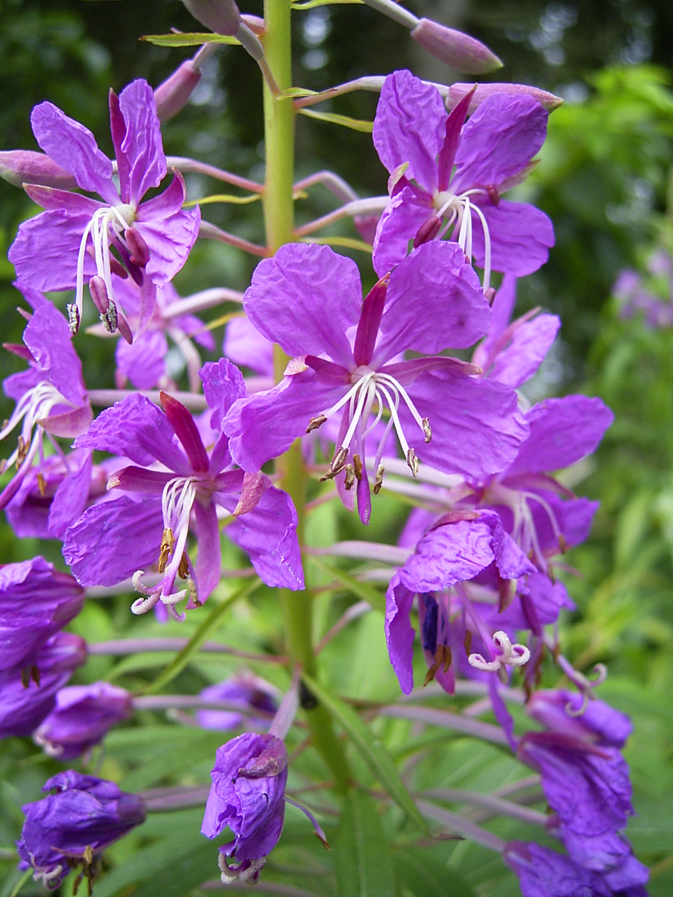 This photo shows the flower of Epilobium angustifolium. The pic was taken by me in Havelte, Netherlands, juli 2004.